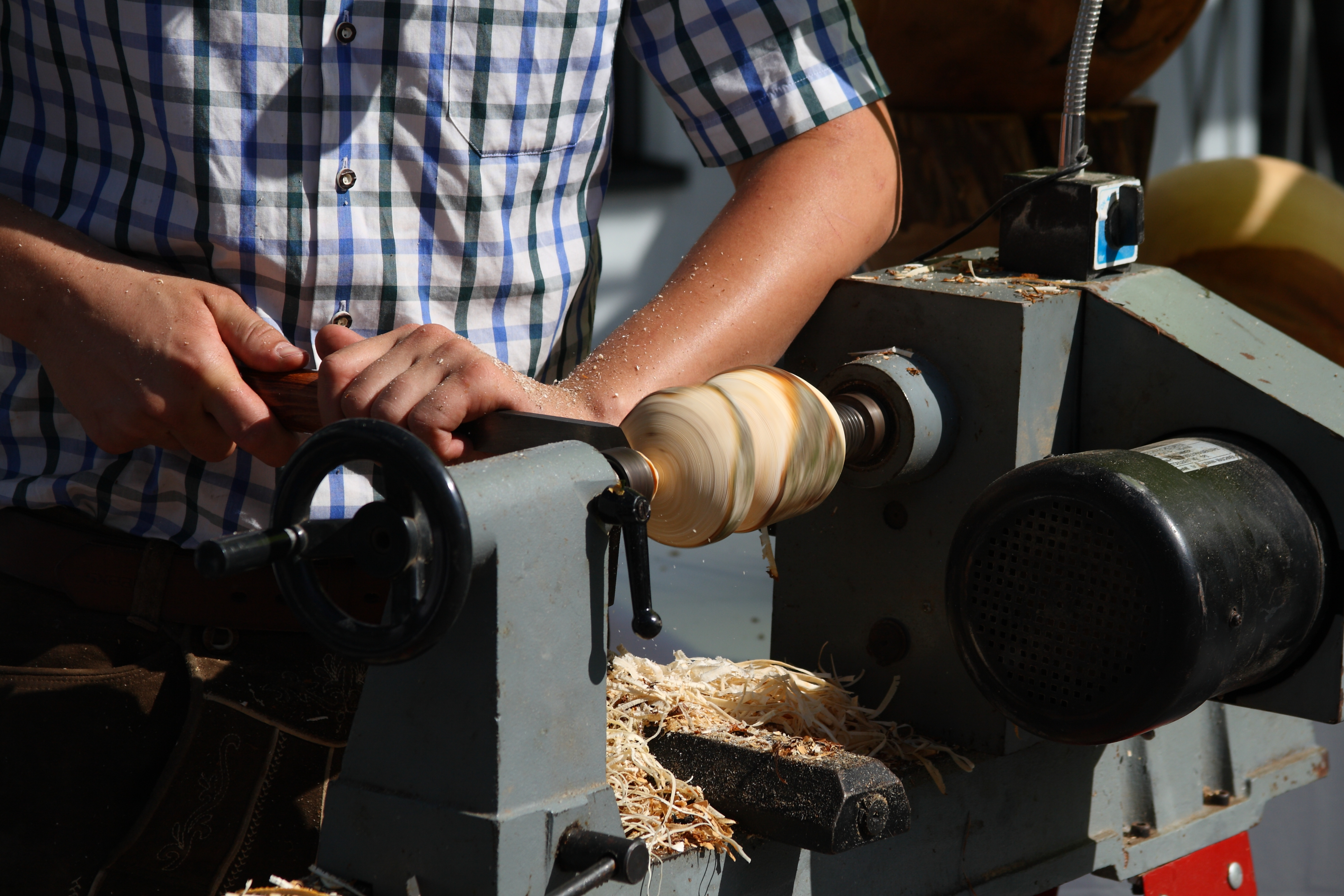 farmers market, Haus im Ennstal, Styria, Austria